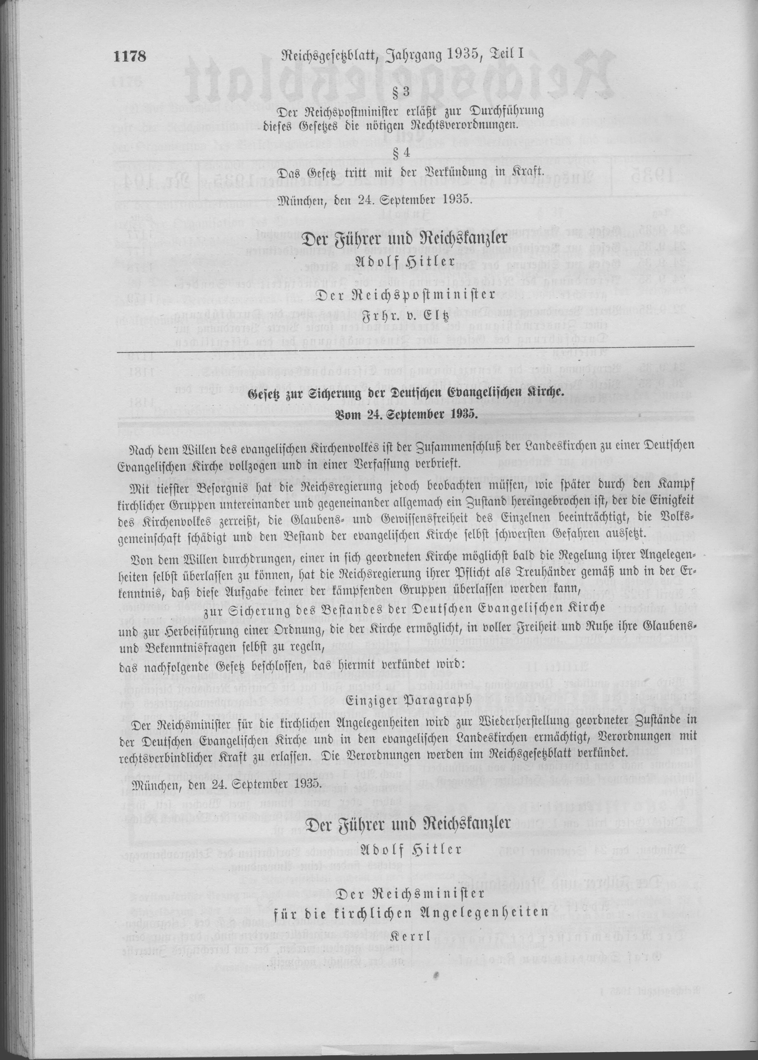 Scan from the Imperial Law Gazette of Germany, 1935, part 1